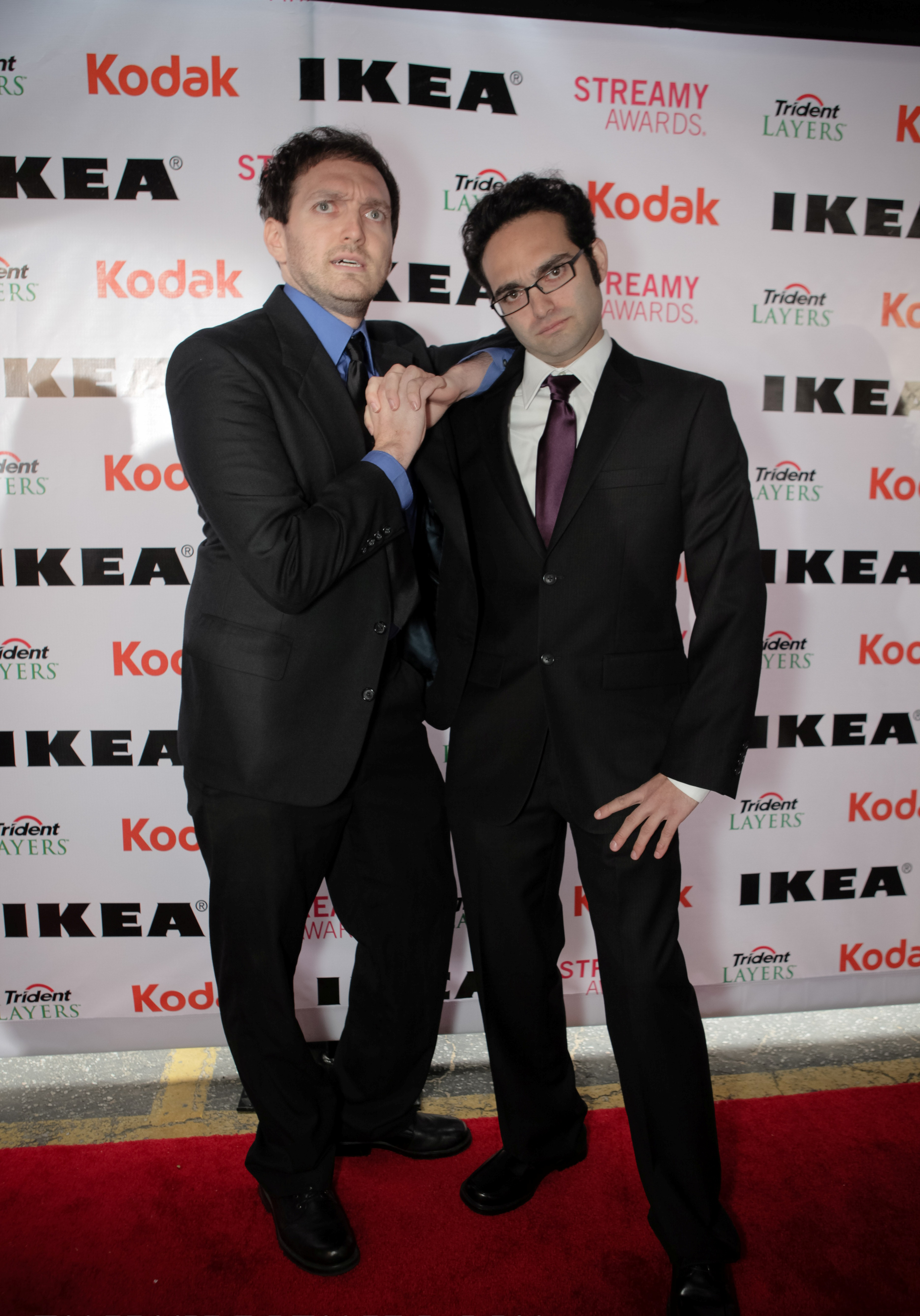 The Fine Brothers (Rafi & Benny) at the 2010 Streamy Awards.